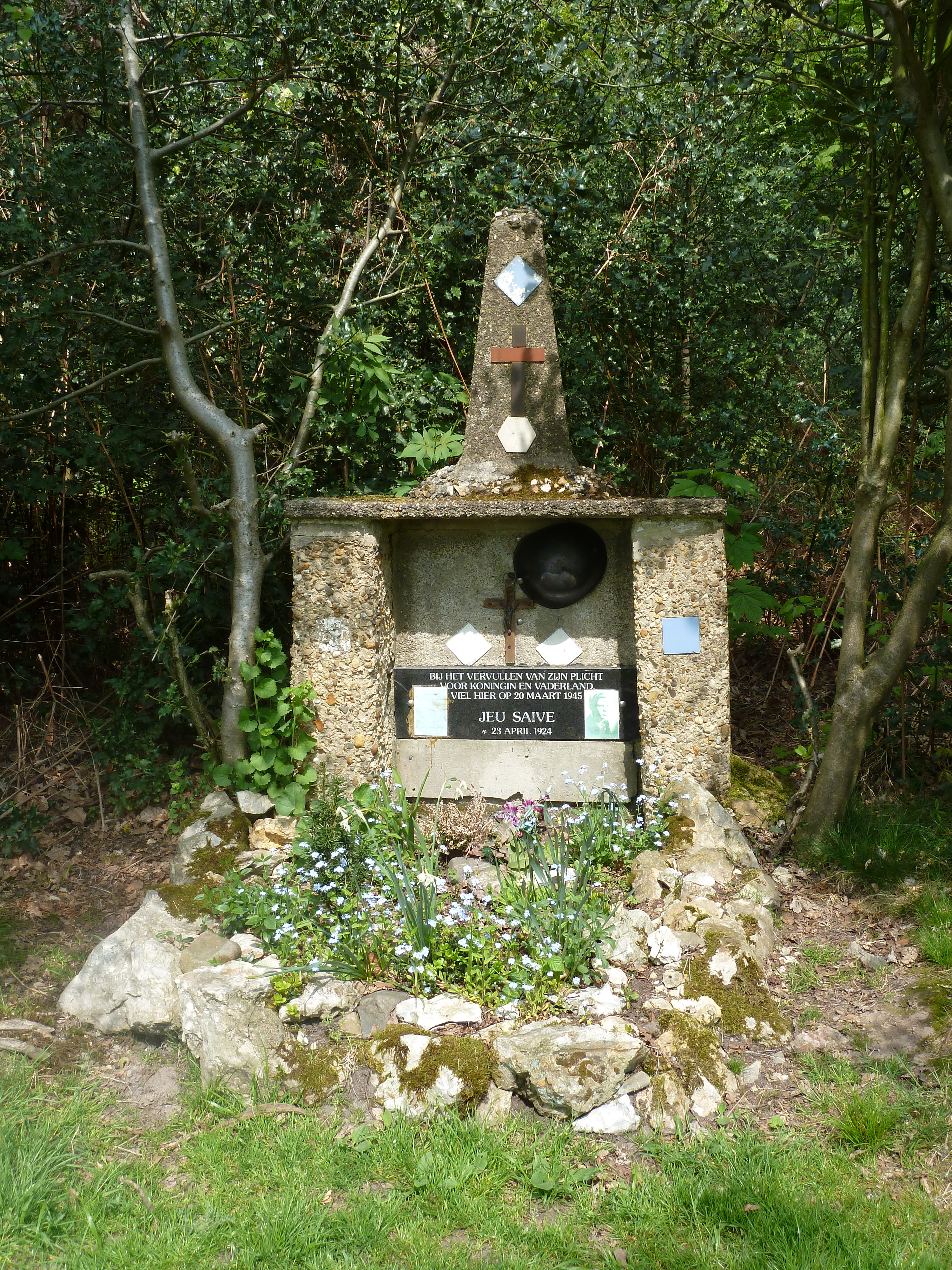 War memorial in Vaals for Jeu Saive, Limburg, the Netherlands